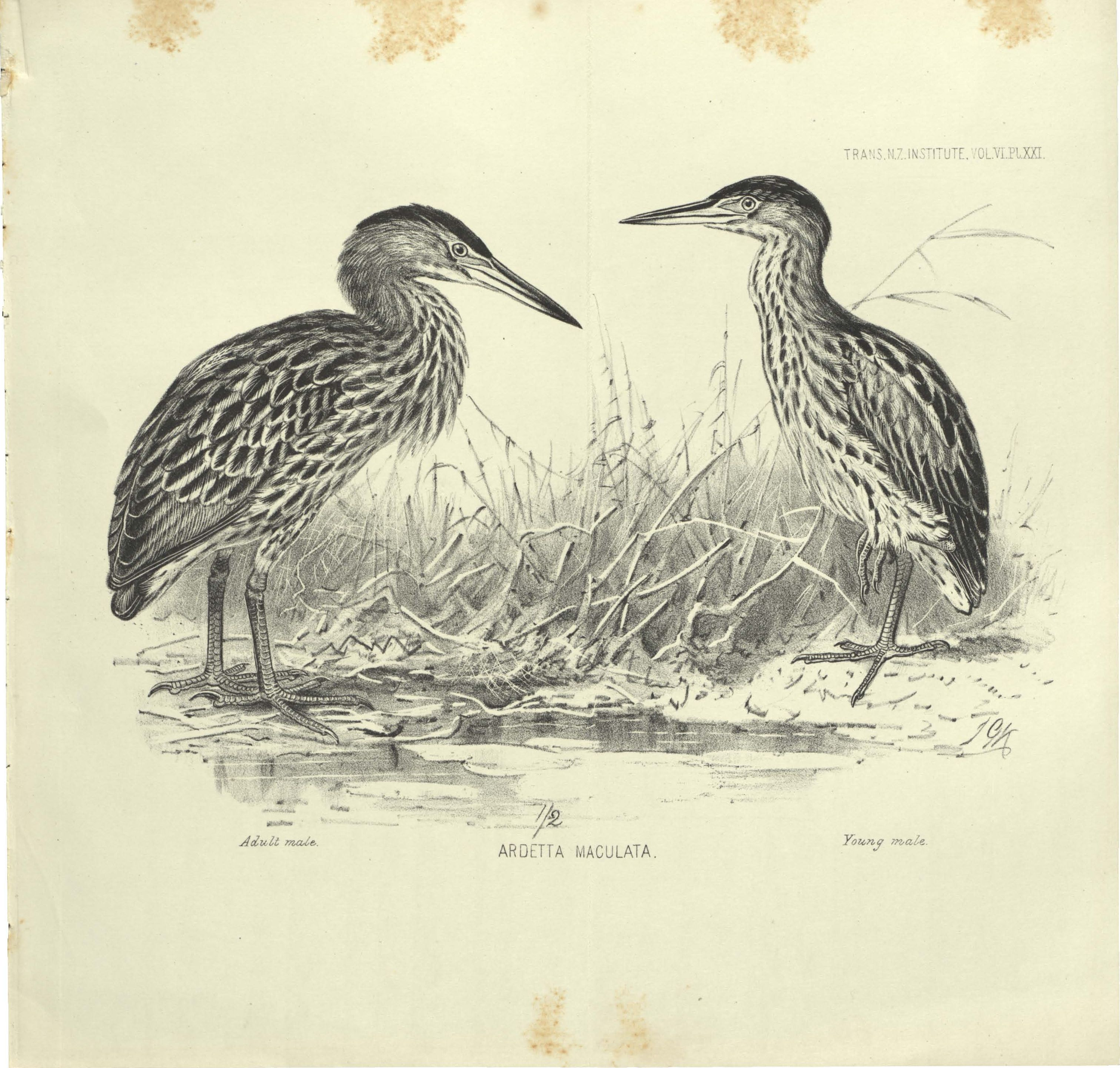 Ardetta maculata (W. L. Buller) is a synonym of Ardeola novaezelandeae (A. C. Purdie) which is identical with the New Zealand Little Bittern (Ixobrychus novaezelandeae)